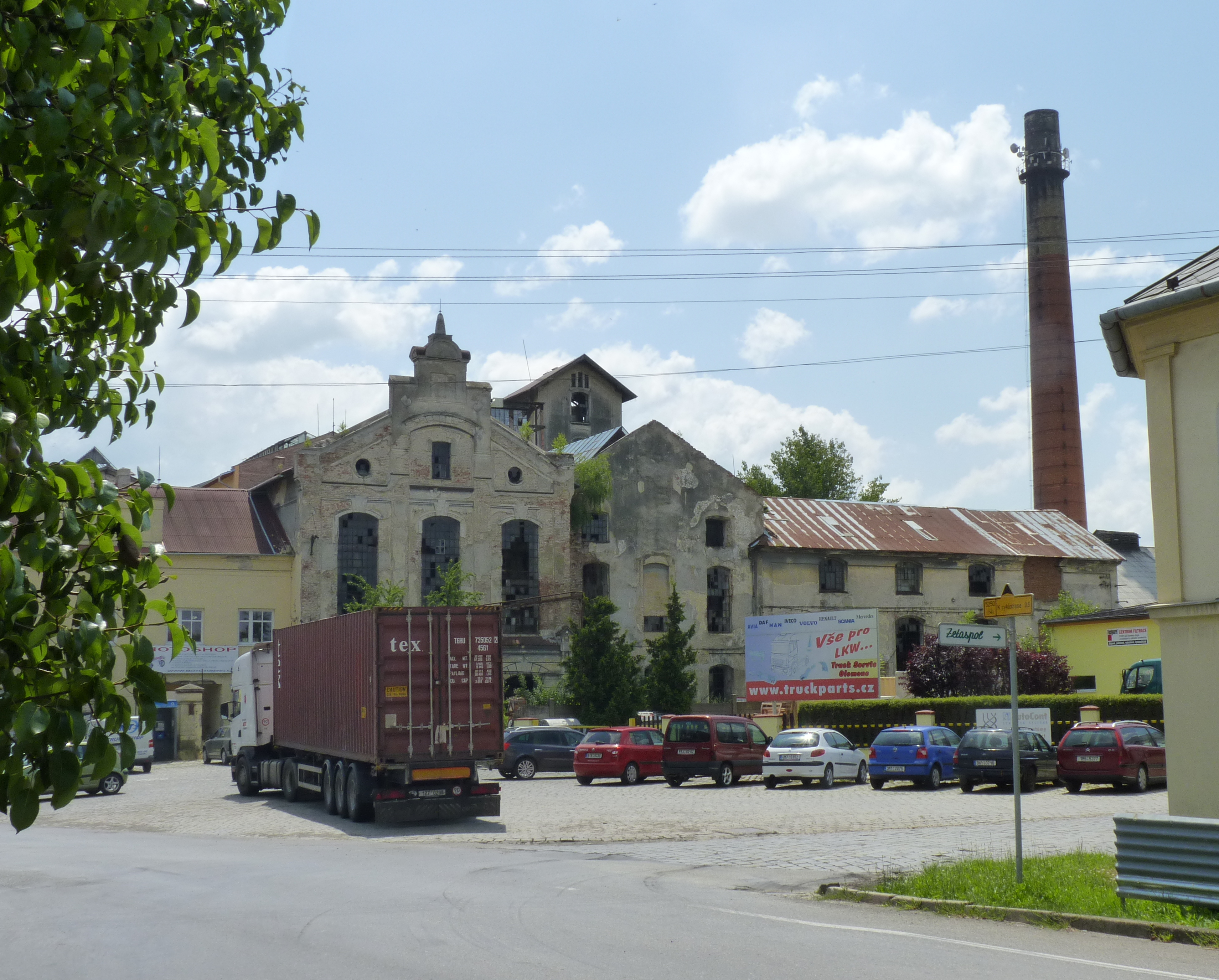 Bedihošť. Prostějov District, Olomouc Region, Czech Republic